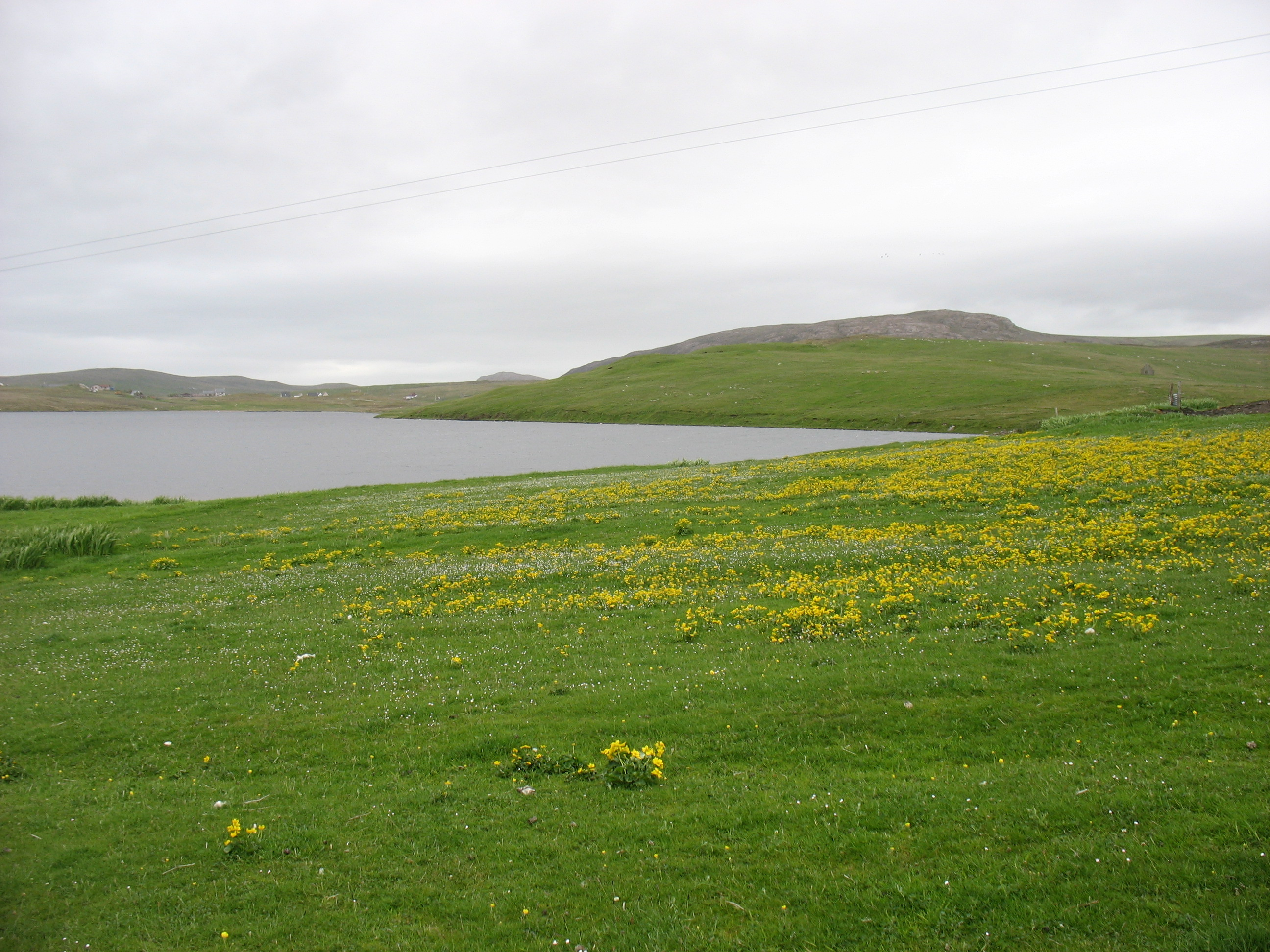 The Loch of Flugarth